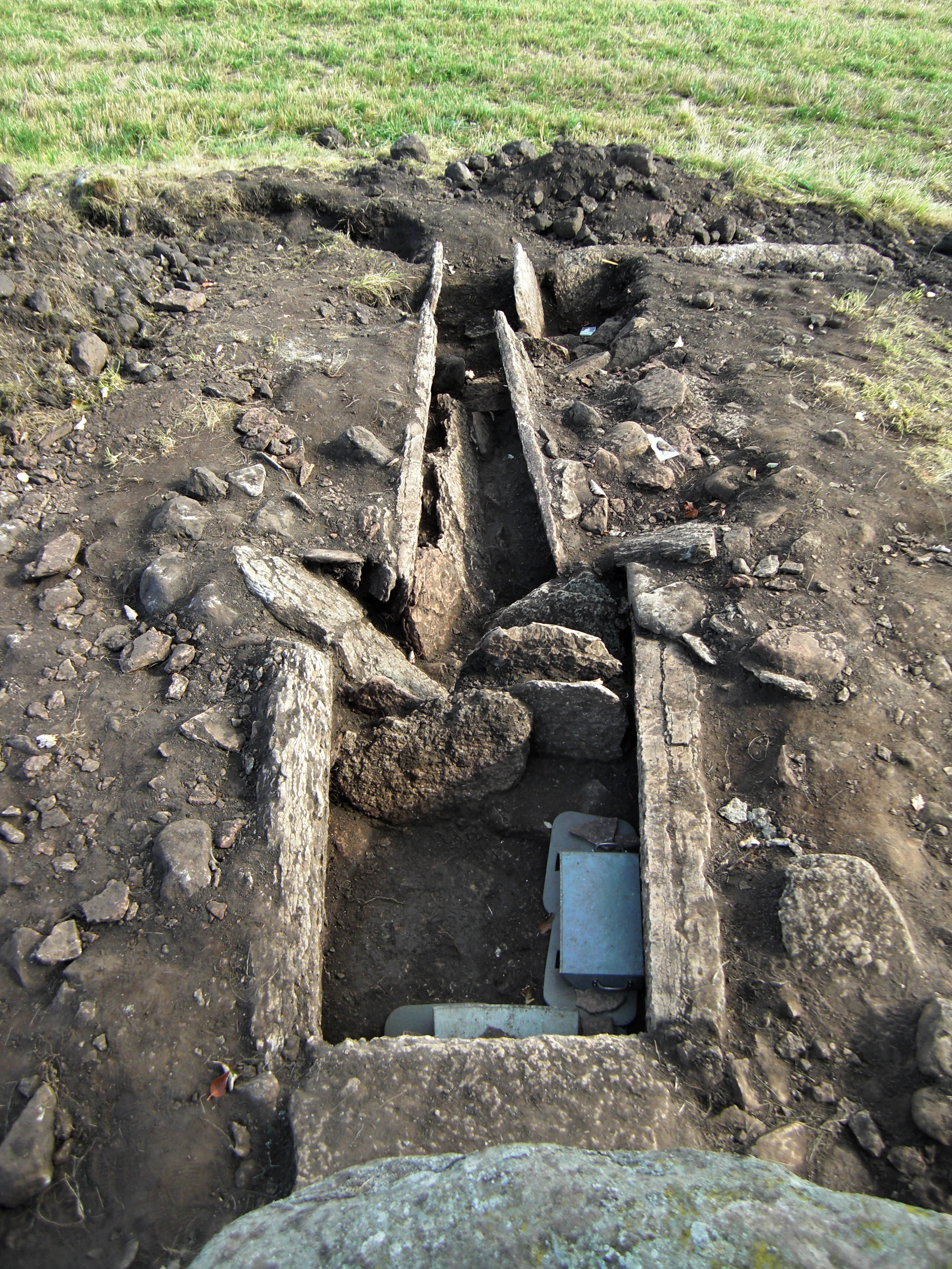 The Neolithic passage grave Firse sten (RAÄ number Falköpings Östra 1:1) during an excavation in September 2008. The passage grave is situated just outside Falköping, Västergötland, Sweden.